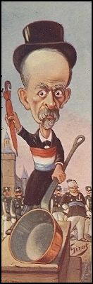 A postcard image from 1904 taking a satirical view of Lepine. One of a series of prominent French people of the Belle Epoch by the artist Sirat